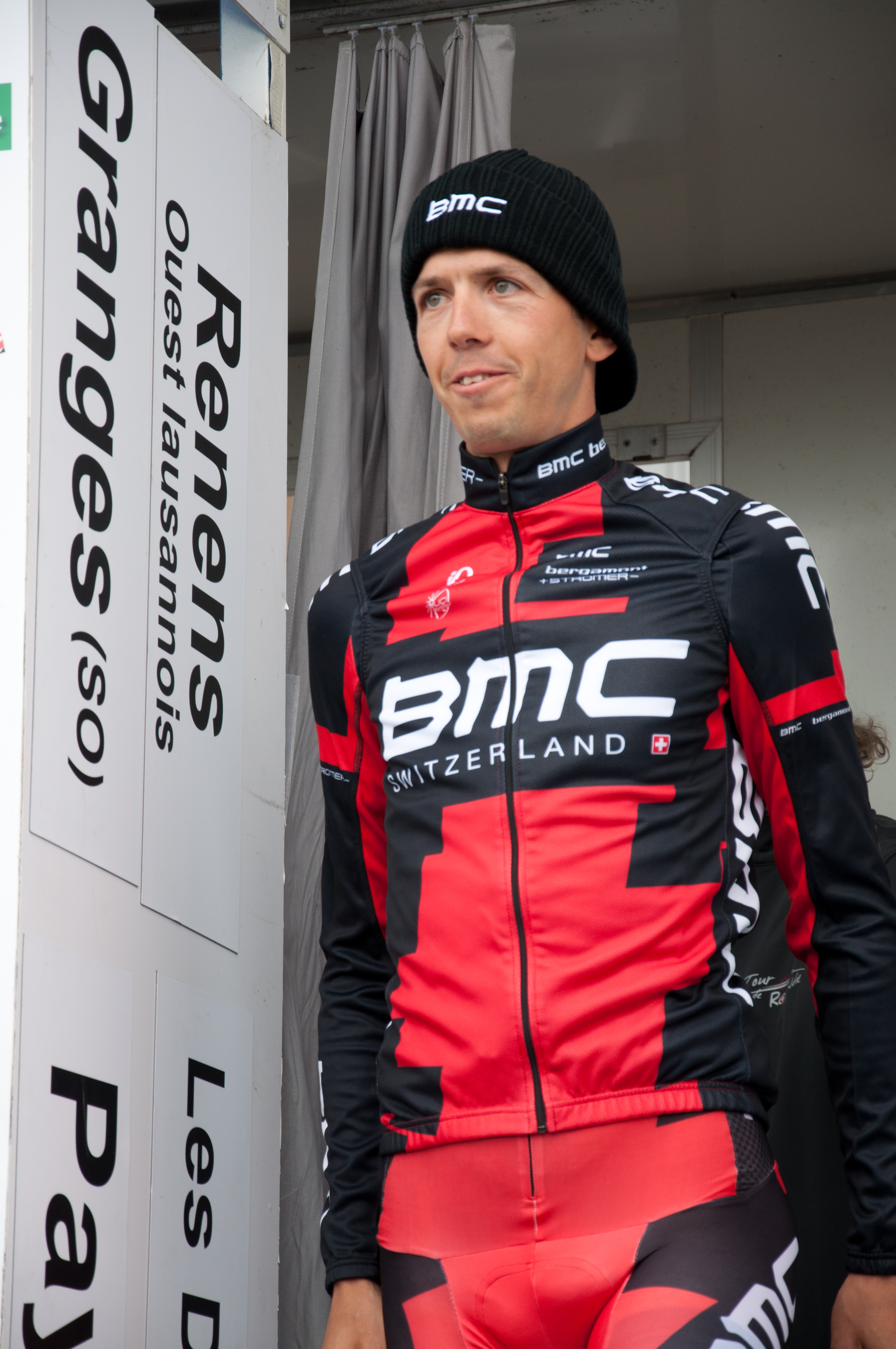 Podium ceremony of Tour de Romandie 2013's stage 5, in Geneva, Switzerland. Steve Morabito entering on the stage.